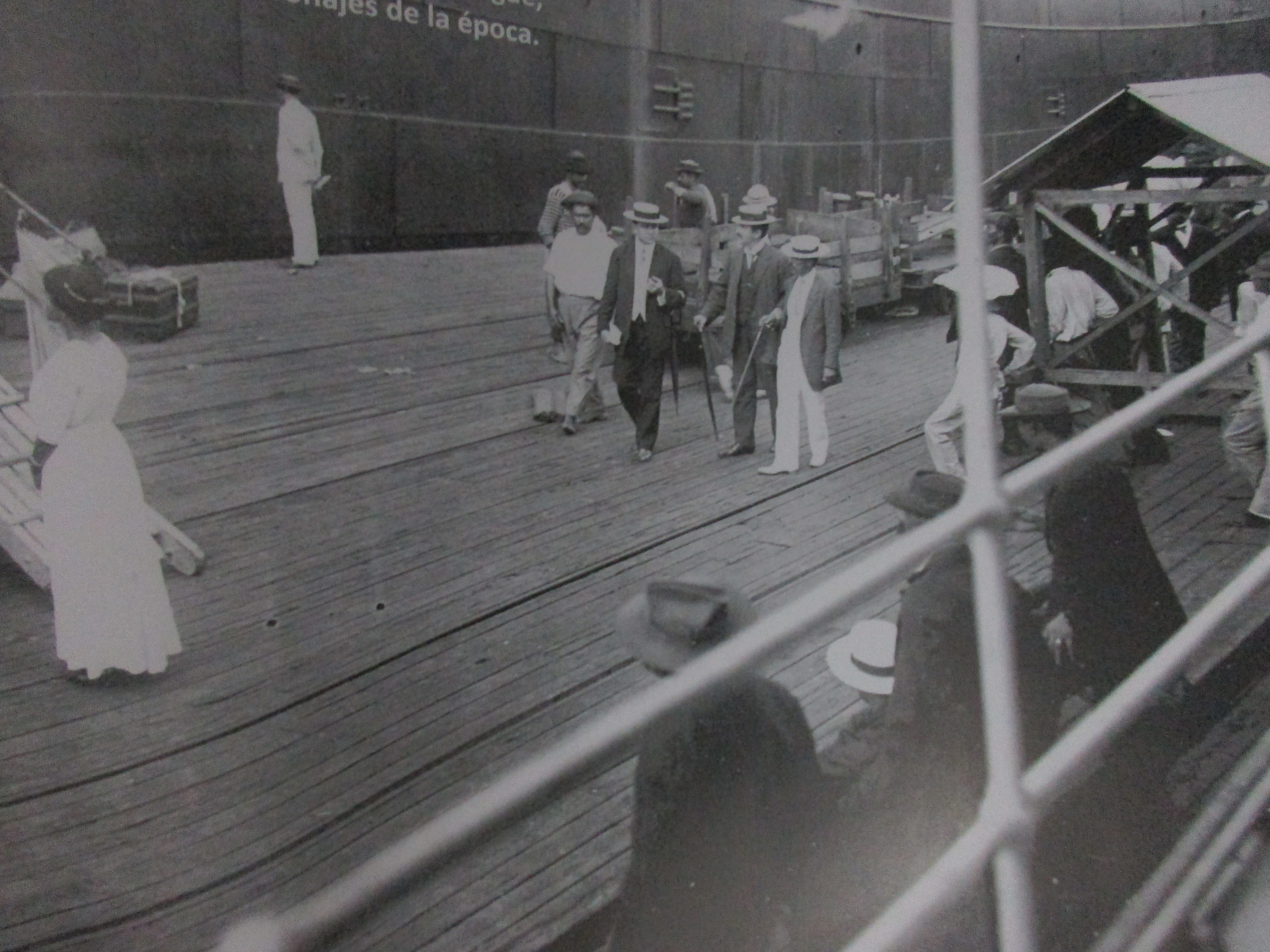 Travelers to the old continent about to board the ship from the port of Iquitos. Rubber Fever